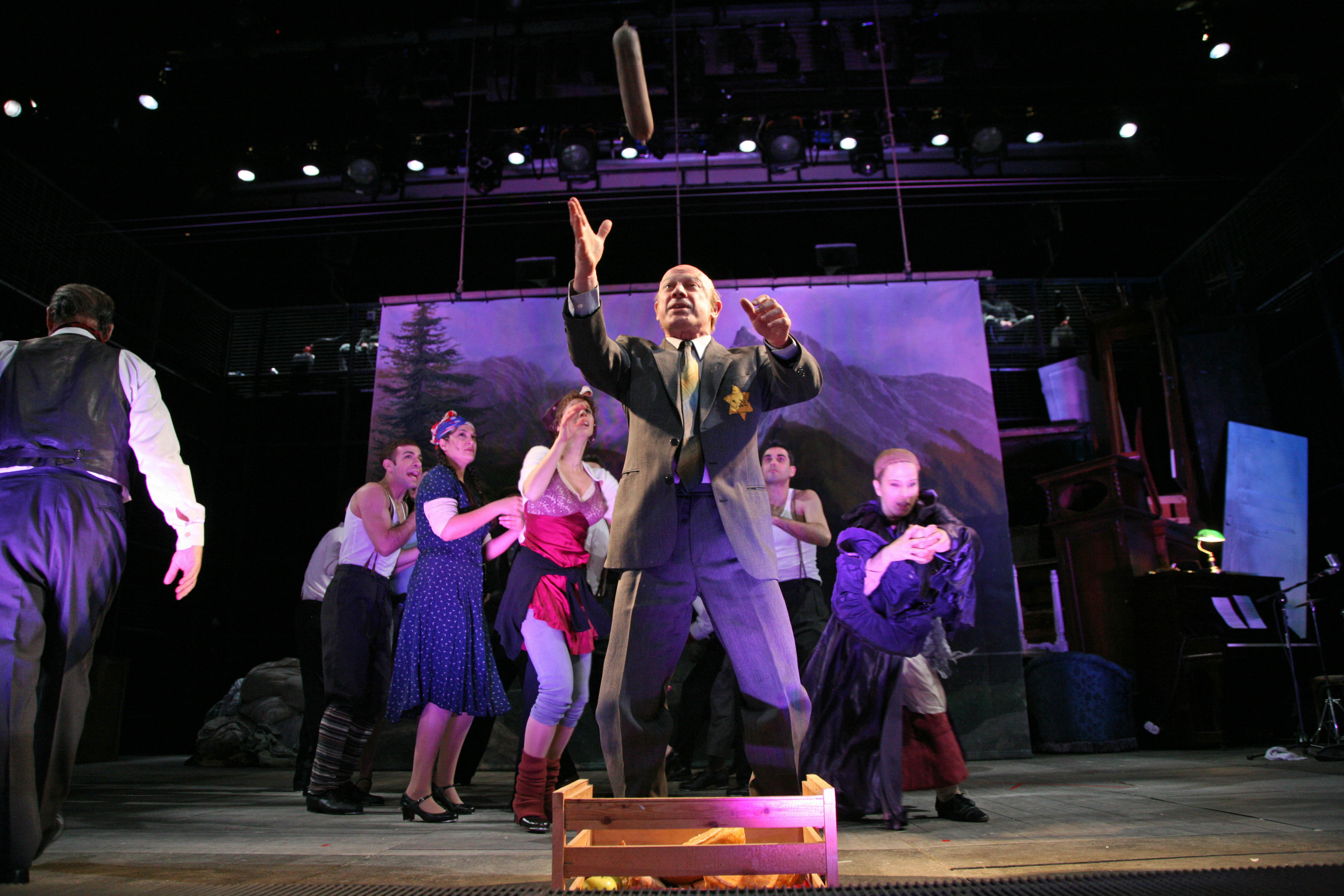 "Ghetto" by Yehoshua Sobol in the Cameri Theater, featuring Rami Barukh. Director: Omri Nitzan.